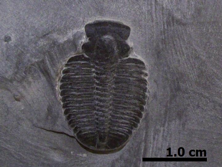 Trilobite Elrathia kingi. The specimen in an exuvia without librigenes.